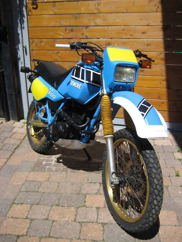 Early Yamaha Tenere 1983 Type 34L in the 55W colors setting